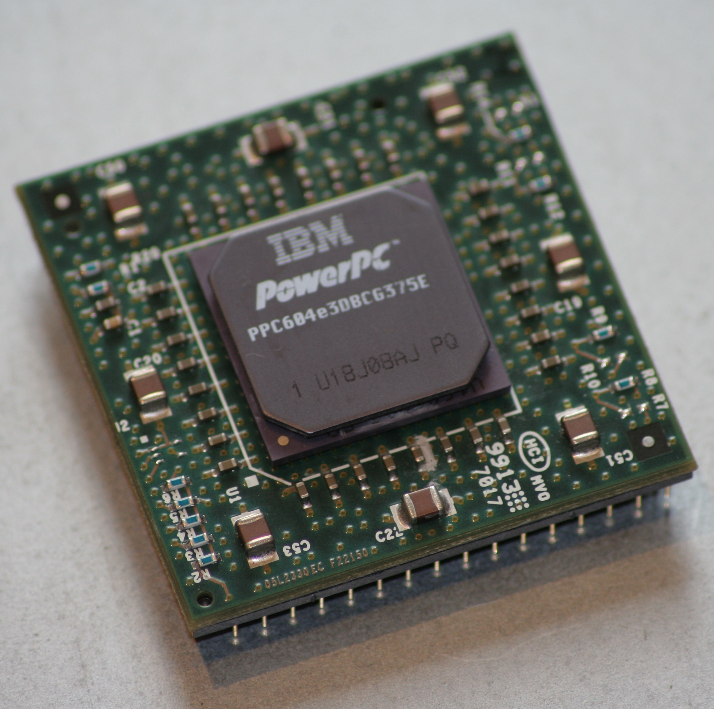 IBM PPC 604e PPC604e3DBCG375E processor on PGA socket